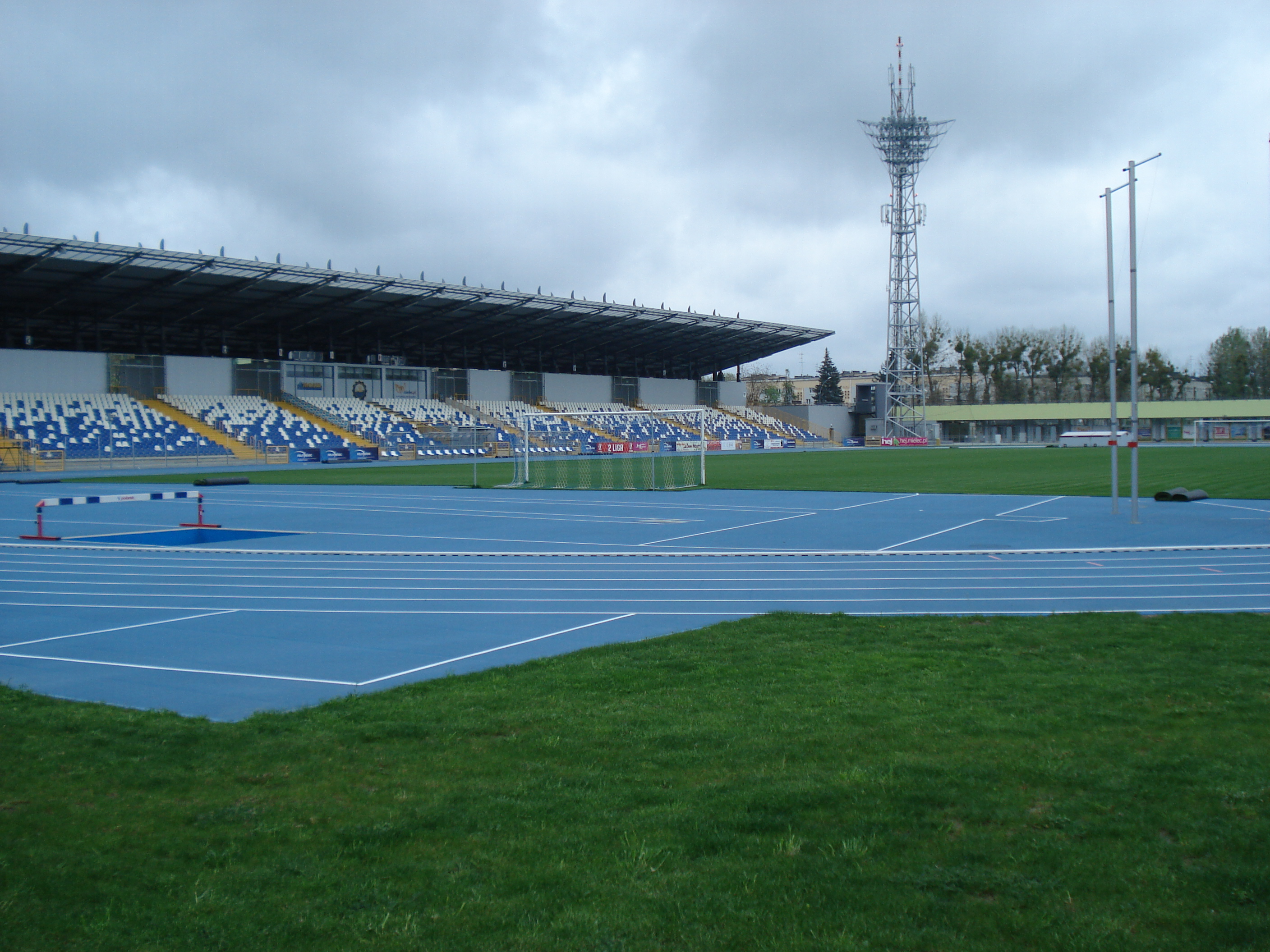 Photo of Stal Mielec Stadion, taken on 4/19/2014 by mcshadypl. This photo is only to be used within Wikipedia articles, in any language.